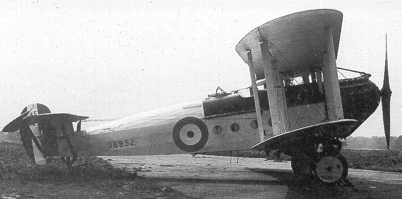 The first prototype Aldershot J 6952 in in 1924, with fuselage lengthening, empennege changes and the externally linked ailerons of the production Mk III Aldershot